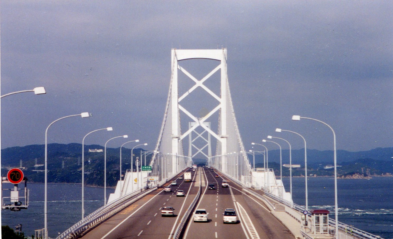 Ohnaruto bridge year 2000.8.13